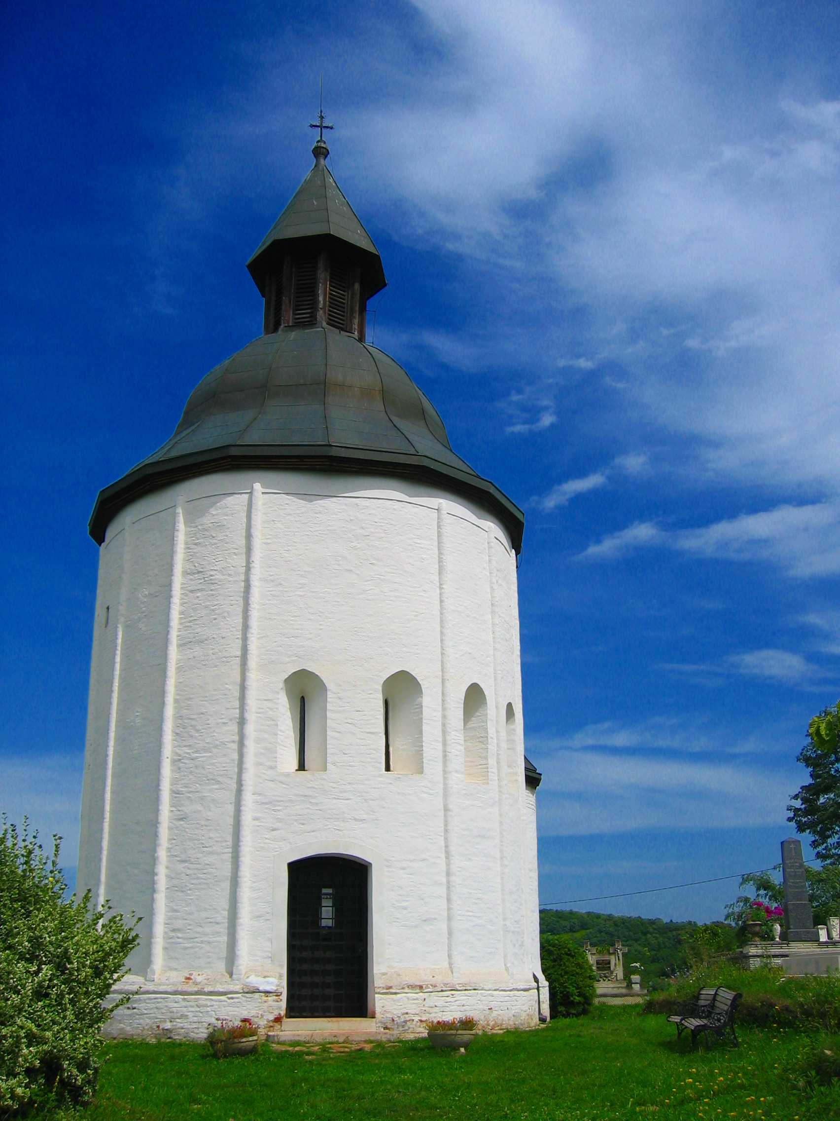 A rare type of round shape church at Kallósd in Zala county, Hungary.